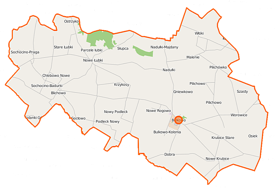 Map of Gmina Bulkowo, Poland This map of Bulkowo (gmina) was created from OpenStreetMap project data, collected by the community. This map may be incomplete, and may contain errors. Don't rely solely on it for navigation. Border coordinates52.612219.9464←↕→20.207352.5026